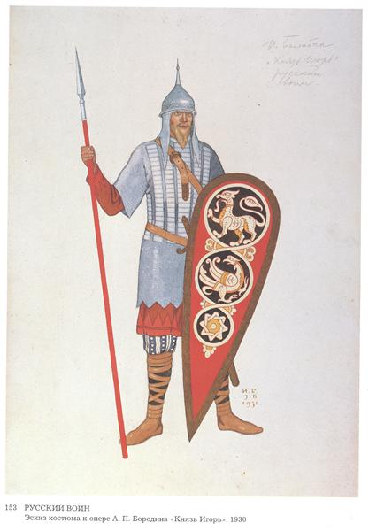 RUSSIAN WARRIOR. Costume design for the opera "Prince Igor" by Borodin. 1930